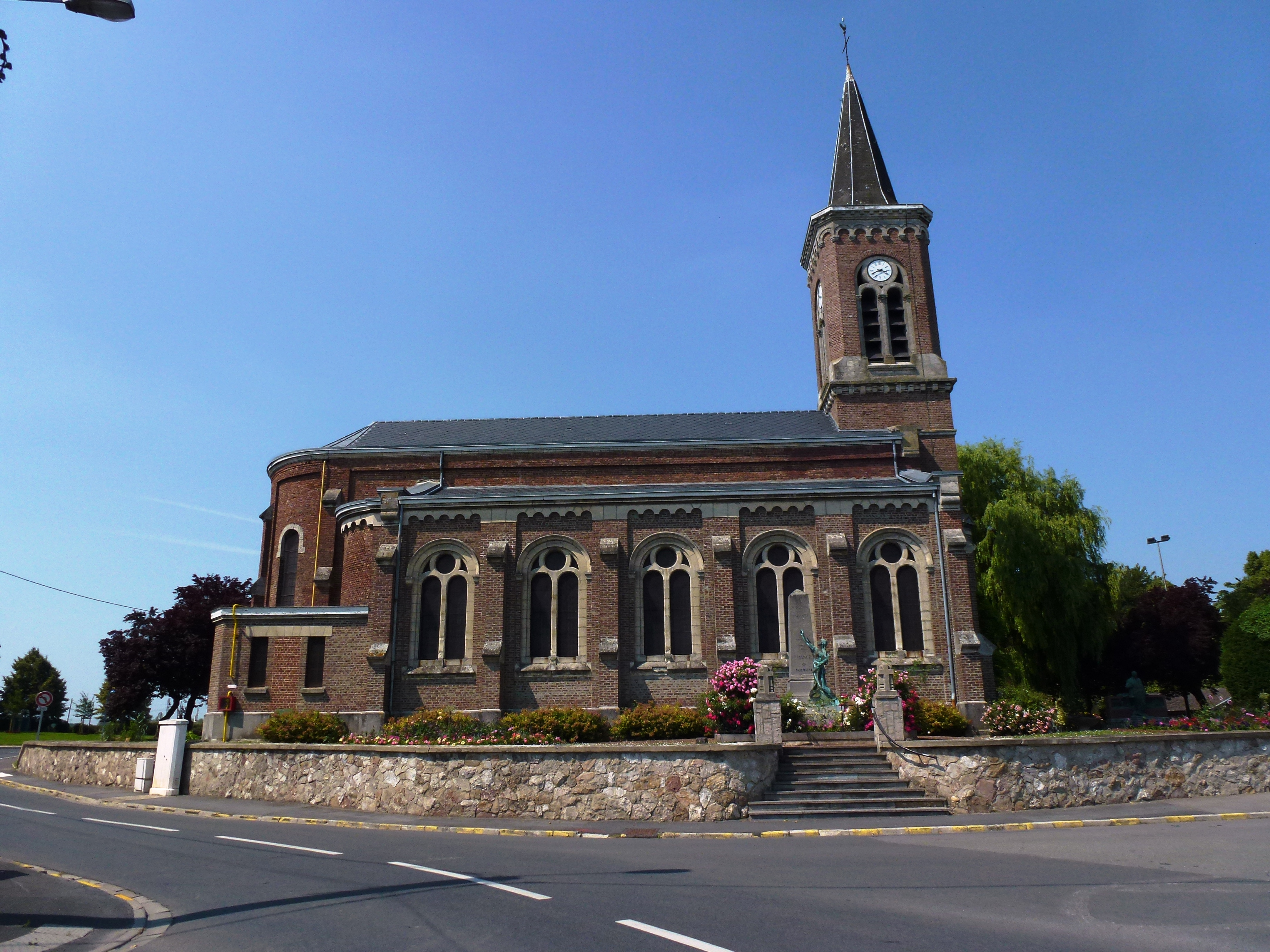 Haulchin (Nord, Fr) église, extérieur